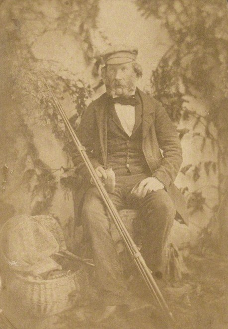 Portrait of Thomas Tod Stoddart (1810–1880), Scottish angler and poet.